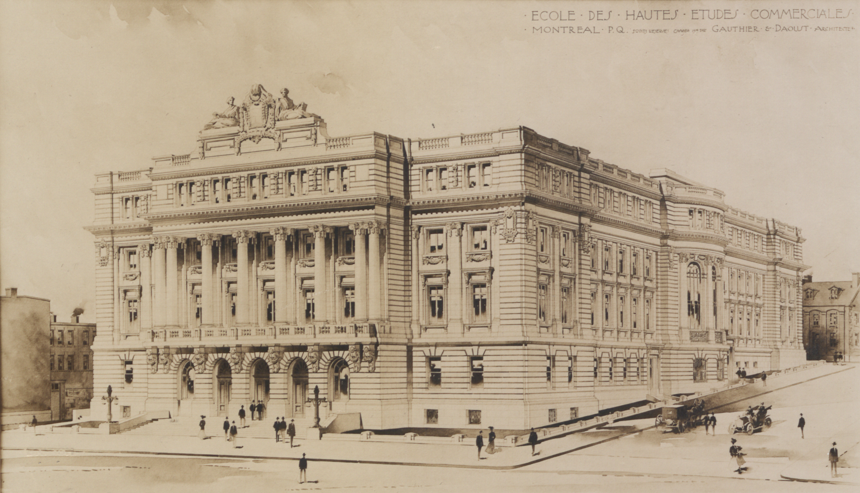 Original caption: “Ecole des Hautes Etudes Commerciales.”